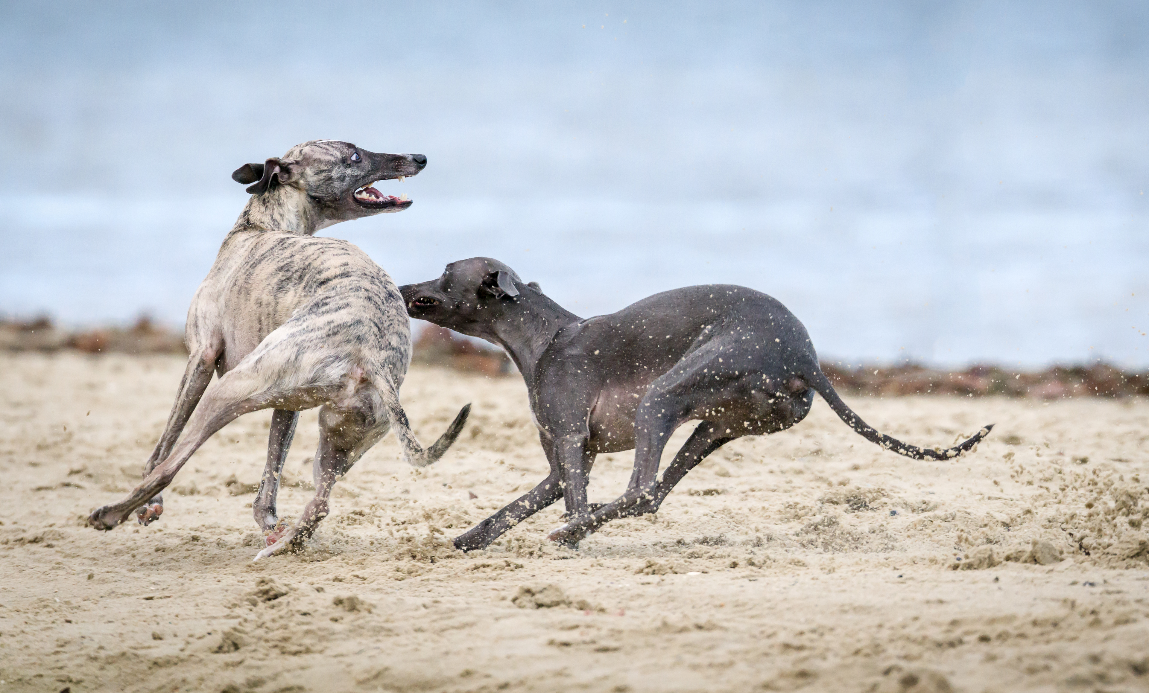 St Kilda beach, Australia